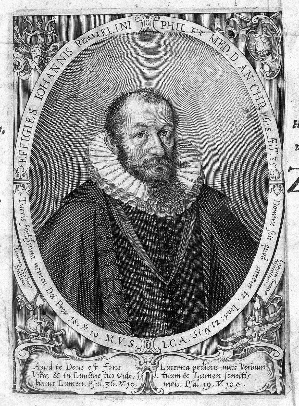 Portrait of Johann Remmelin Rare Books